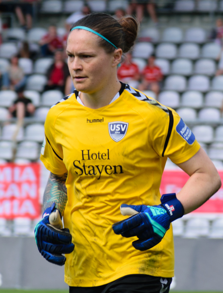 Erin McLeod playing for FF USV Jena vs FC Bayern Munchen